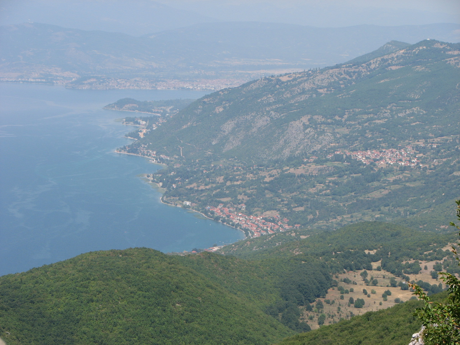 View from Galichica, to the east coast of Ohrid Lake, down there village Pestani and town Ohrid in the distance